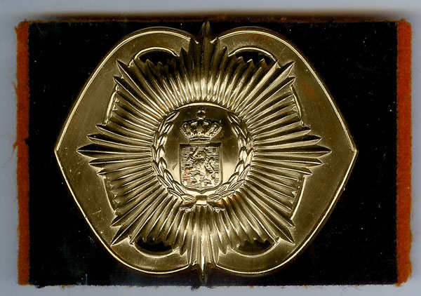 Dutch cap badge from the Regiment Infantry 'Van Heutsz'